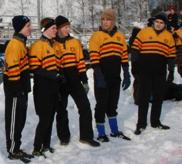 Tampere RC Groove at Snow Rugby 2013